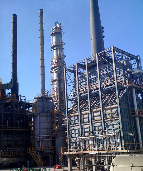 A distillation facility owned by Hellenic Petroleum.